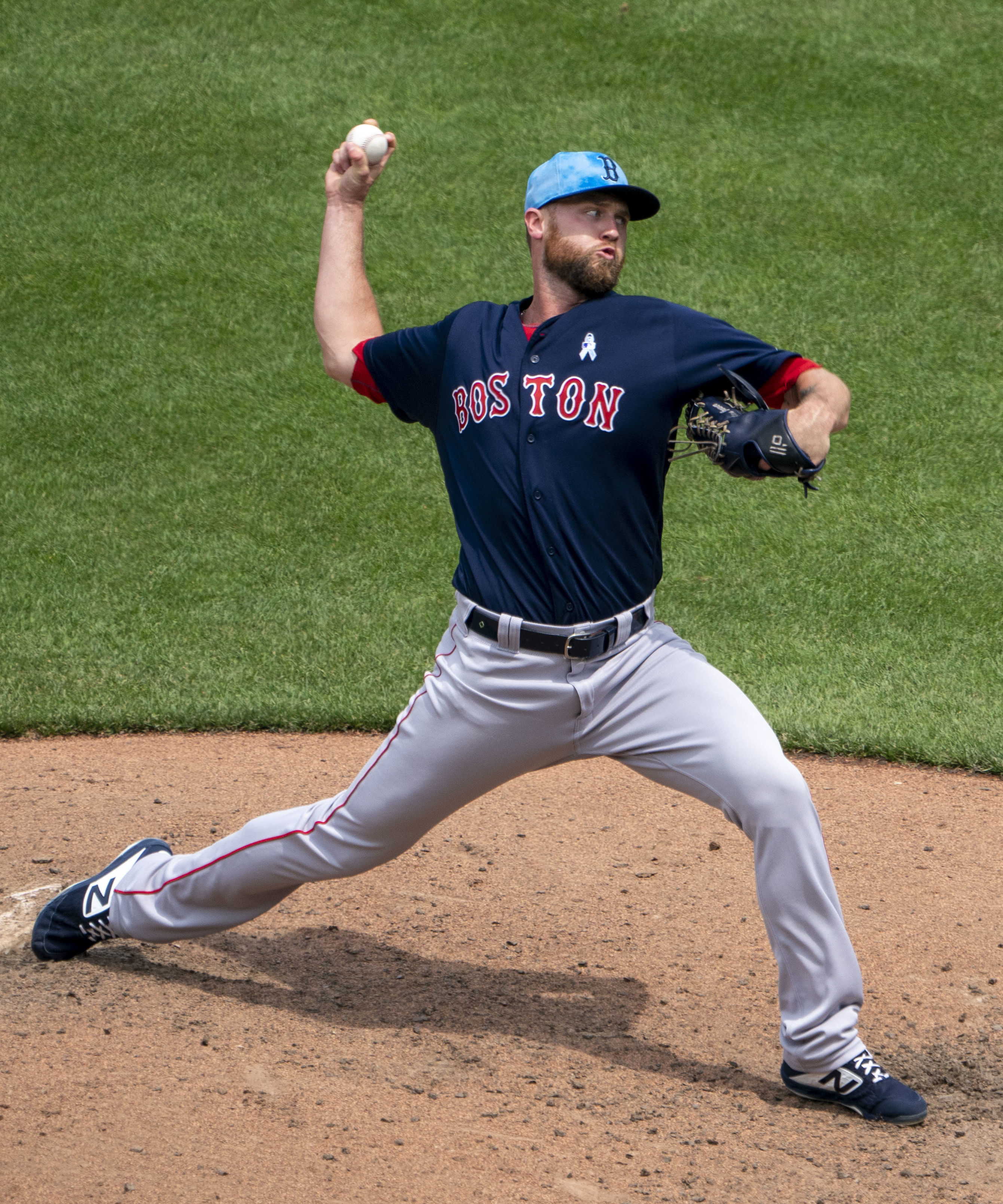 Colton Brewer delivers a pitch for the Boston Red Sox during a 2019 game at Camden Yards in Baltimore